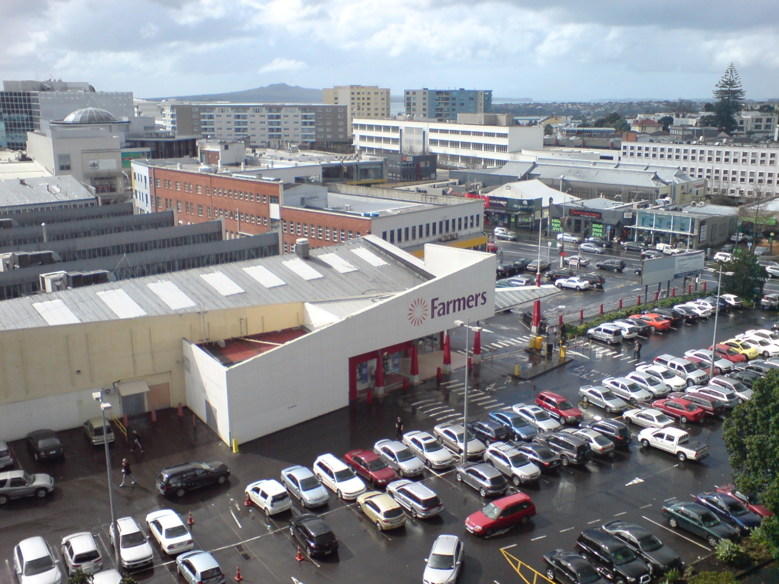 Looking down at the Farmers department store in Newmarket in Auckland, New Zealand. View to the northeast from Newmarket Viaduct on Open Day.